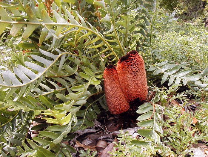 Twin buds of Banksia blechnifolia, Maranoa Gardens, North Balwyn photo Cas Liber